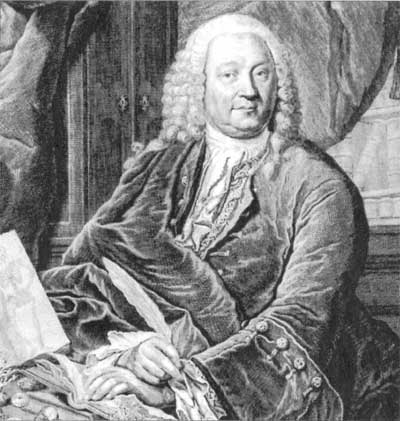 Abraham Vater (1684–1751) German physician and philosopher